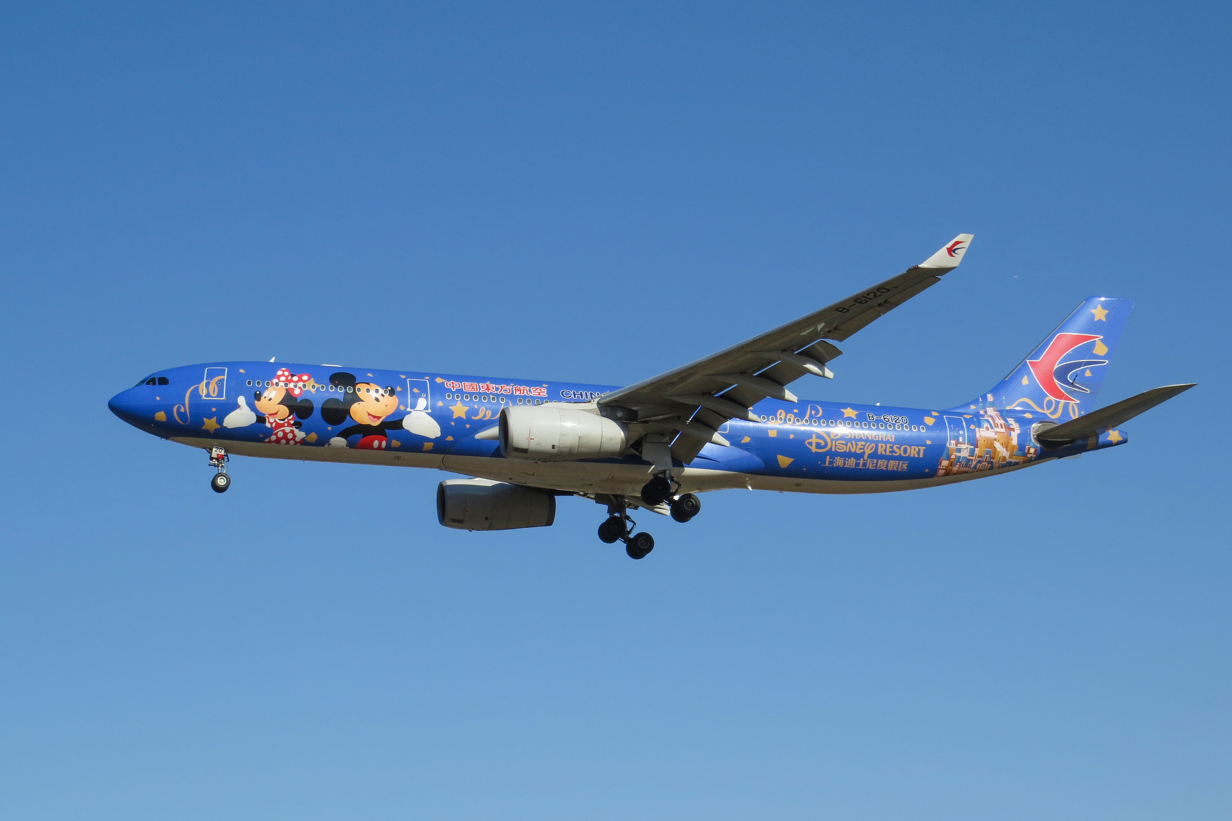 China Eastern 5111 from Shanghai Hongqiao. Luckily 36R.